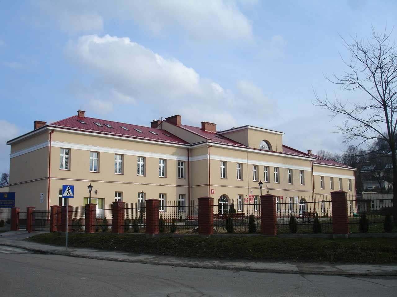 Agricultural Institute of Jan Grodek State Vocational Academy in Sanok on the 21 Mickiewicza Street